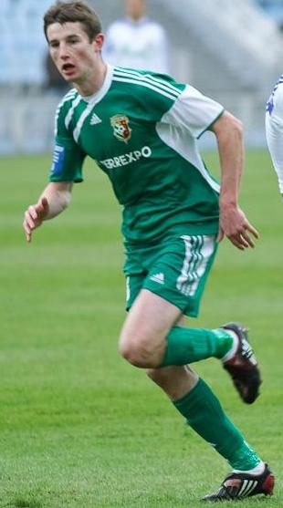 Volodymyr Chesnakov